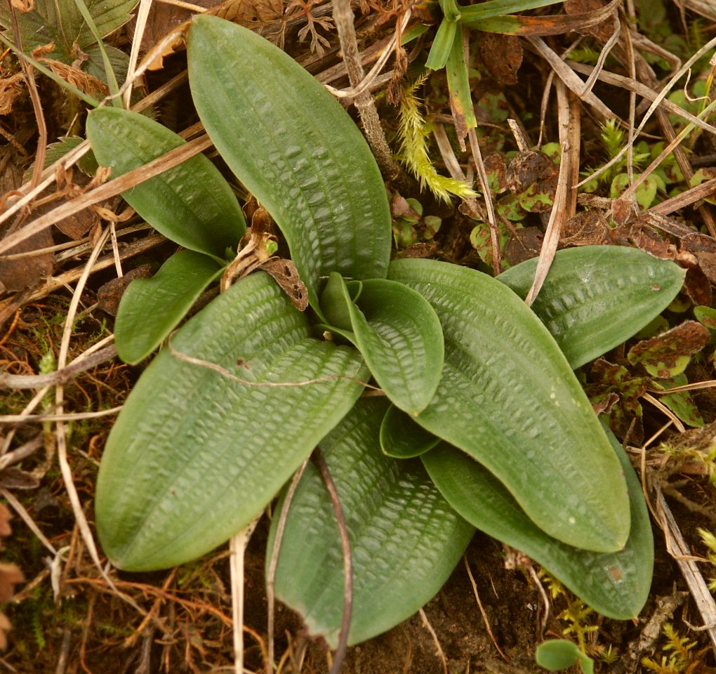 Aceras anthropophorum, Hohenloher Land, Germany